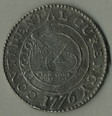 Obverse of a 1776 Continental currency coin replica. Versions were made from silver, brass, and pewter. The denomination is unknown, and may have varied by the metal used, though (especially for the silver version) it is thought that it was a Spanish dollar coin. The design came from an earlier Continental currency note, which was made by Benjamin Franklin. For more information, see here or here.